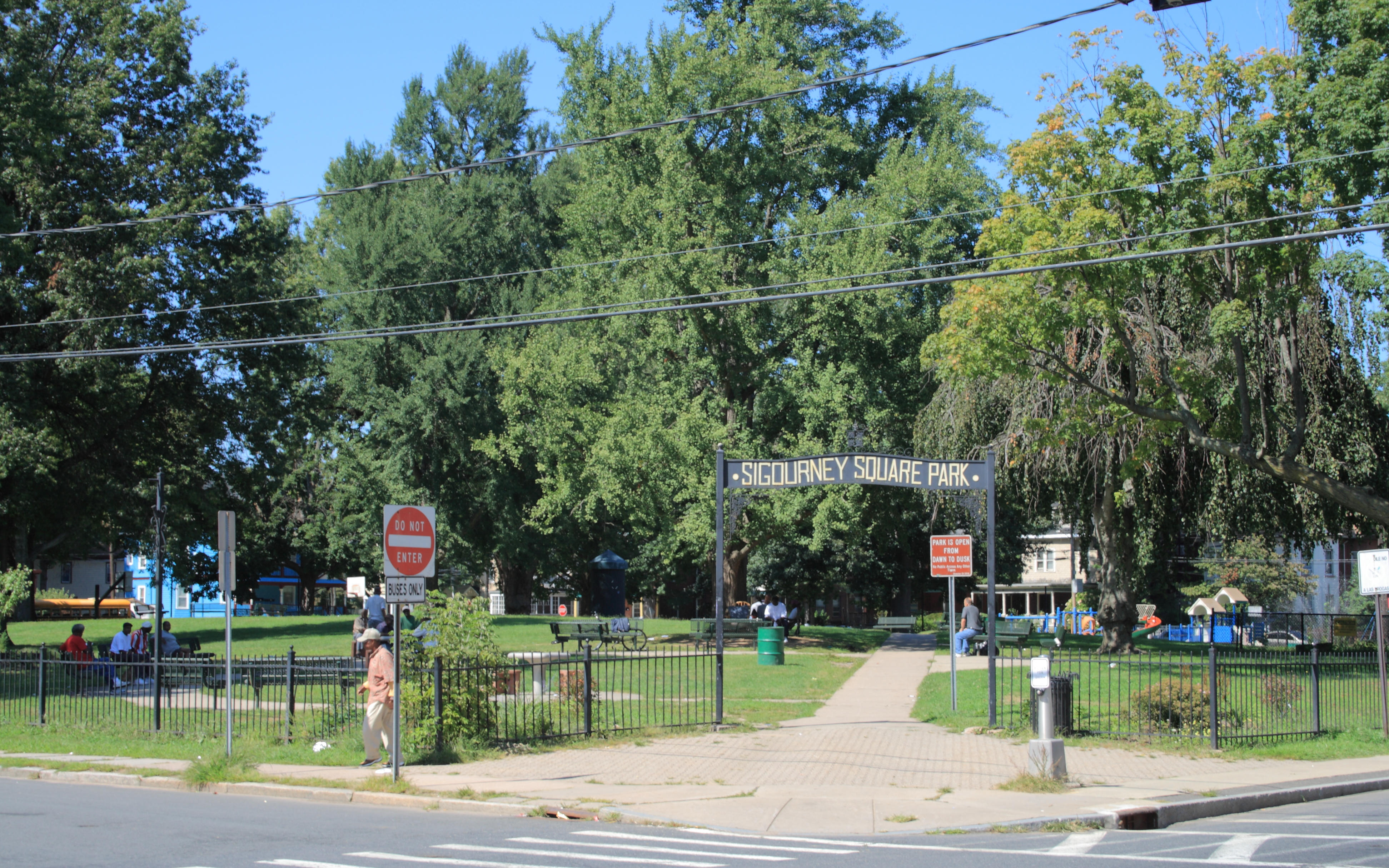 Sigourney Square Park within the Sigourney Square District, a Registered Historic Place in Hartford, Connecticut - OpenStreetMap(Info)